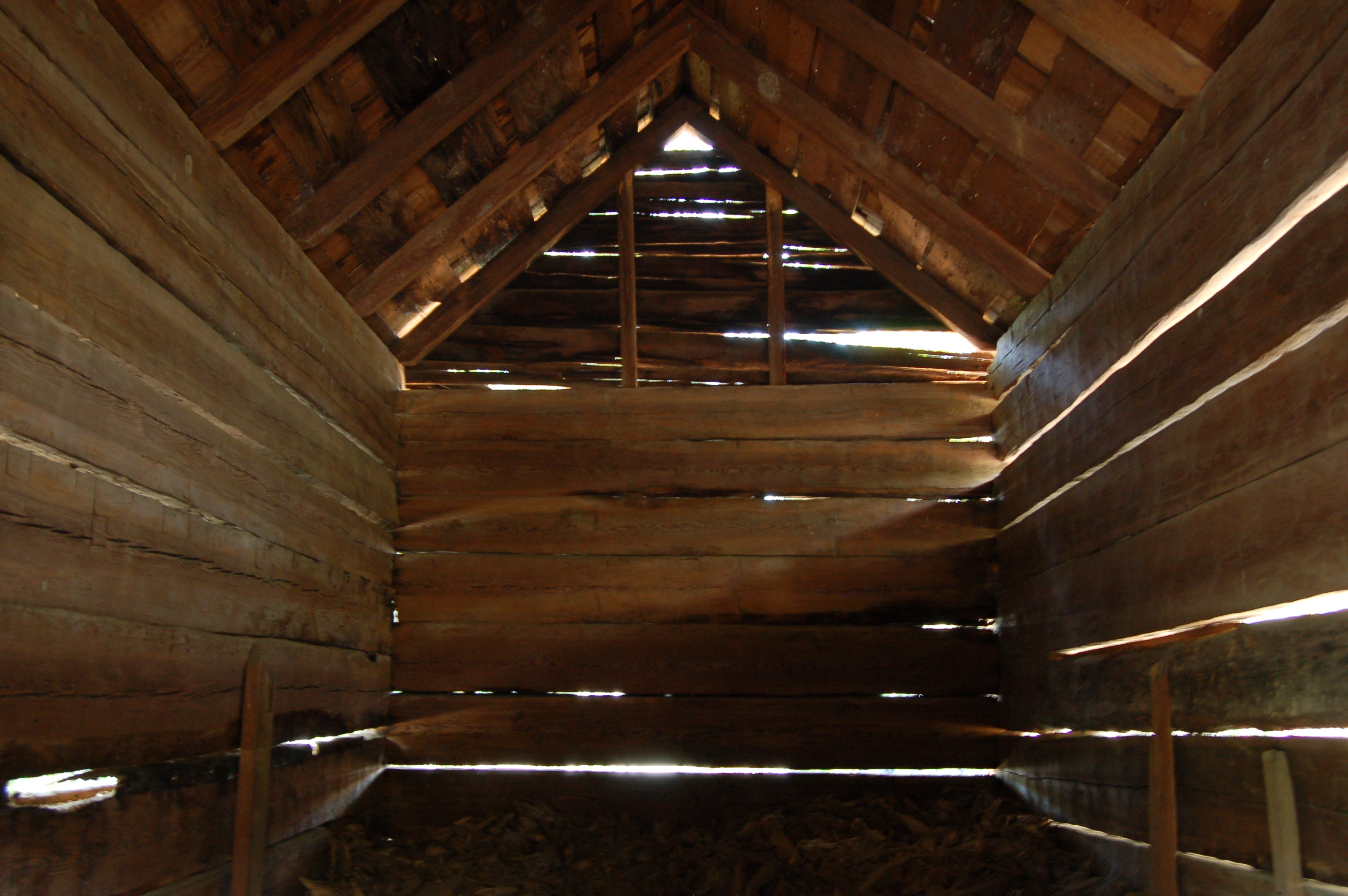 Corn crib in Pinehurst, NC